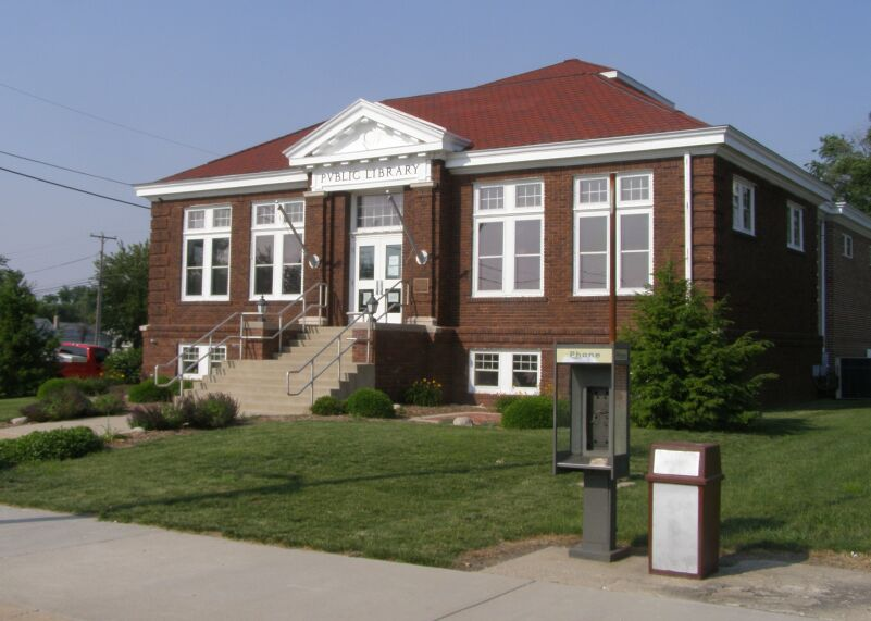 Kirlin Carnegie Library, Clinton County, Indiana